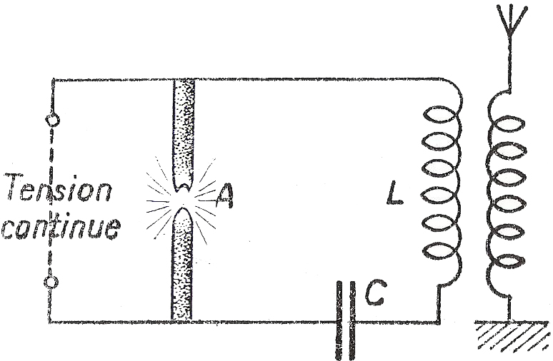 Principle of the spark-gap emitter